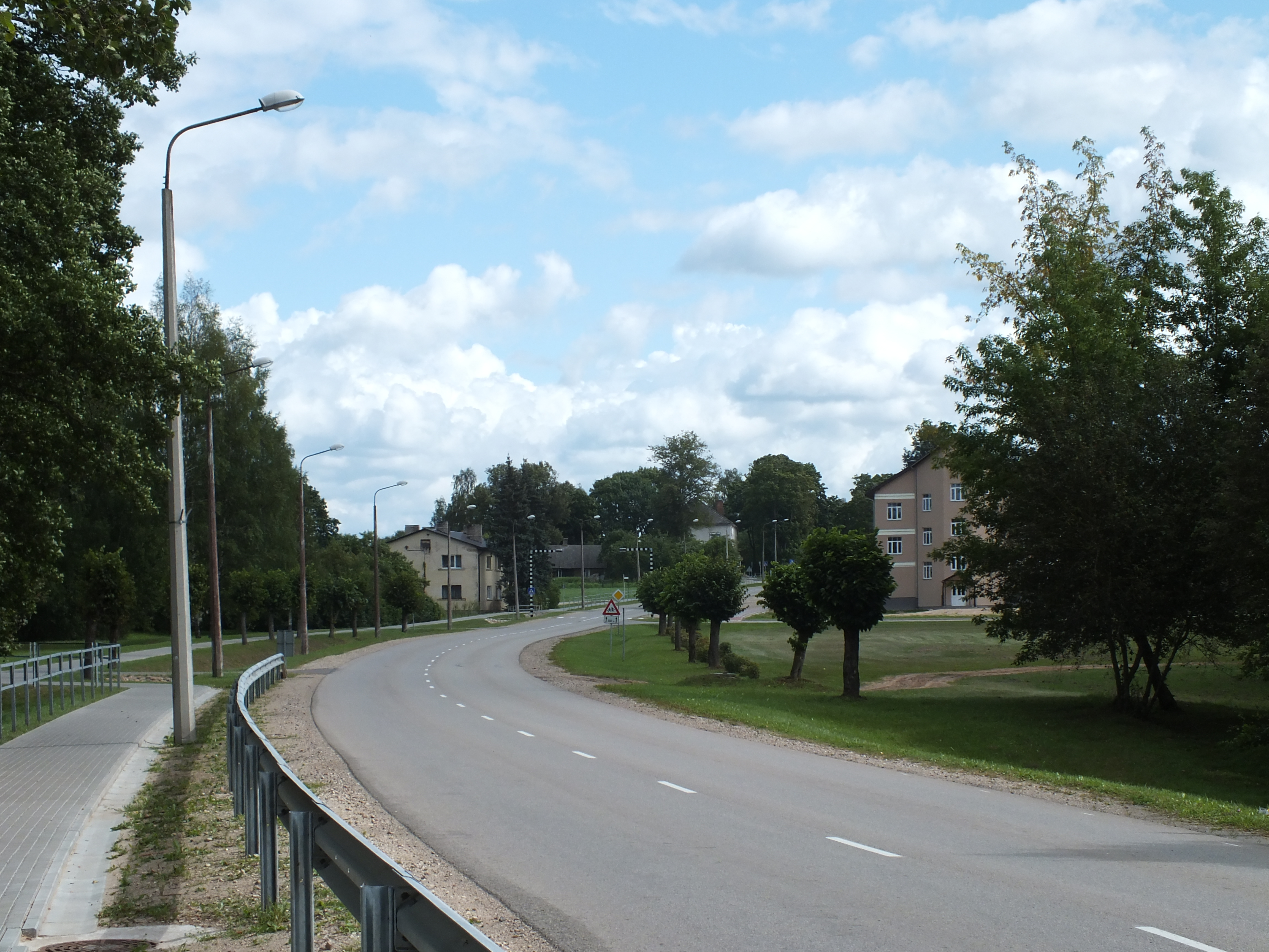 Rīga Street in Baldone